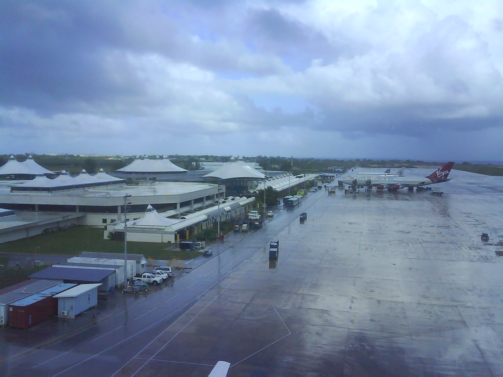 The City of Bridgetown's Grantley Adams International Airport at Seawell. (Located in the parish of Christ Church.) Alongside the departures terminal some aircraft belonging to Virgin Atlantic, American Airlines and Jetblue.)